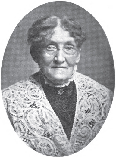 Josephine Brawley Hughes, American suffragist and wife of Arizona Territorial Governor L. C. Hughes